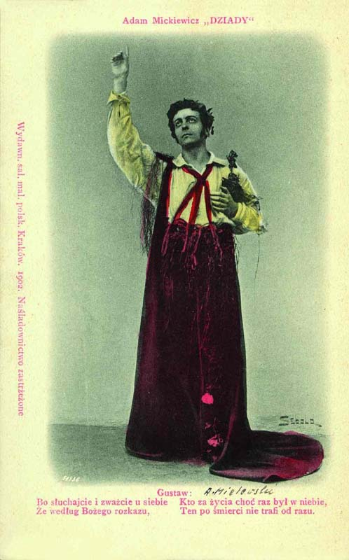 Andrzej Mielewski as Gustaw in "Dziady" - postcard. Photo by Józef Sebald